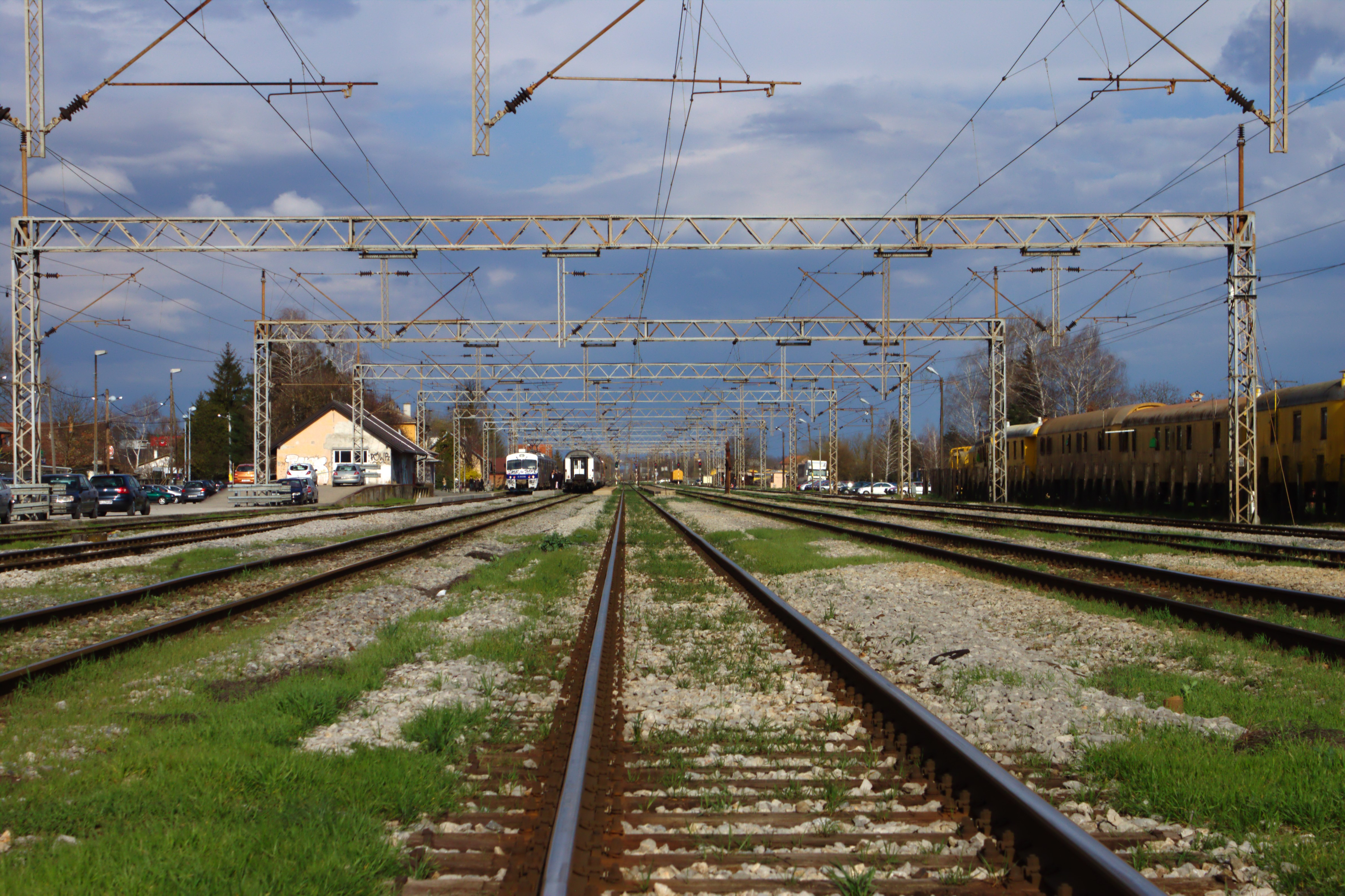 View of the Dugo Selo train station, Croatia